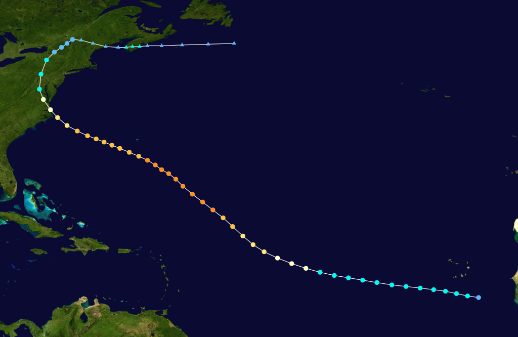 1933 Atlantic hurricane 7 track. Uses the color scheme from the Saffir-Simpson Hurricane Scale.